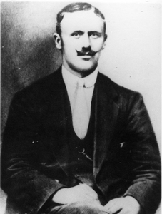 Lazaros Tsamis, commander from Pisoderi, Florina region, Greece.